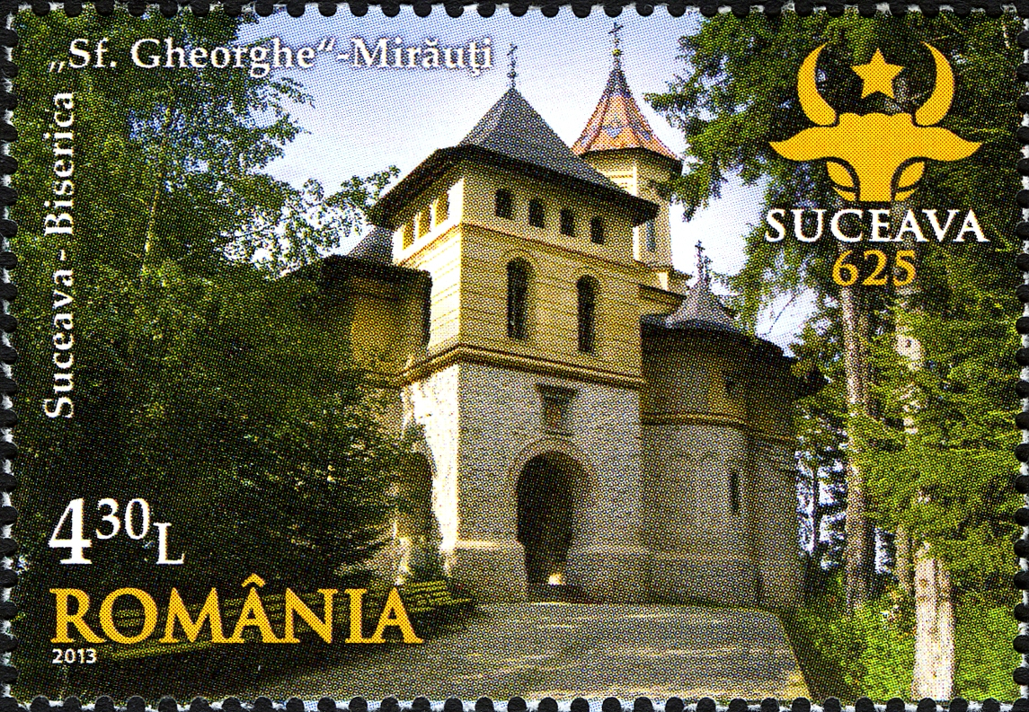 Mirăuţi Church in Suceava - Suceava 625 anniversary stamp (2013).